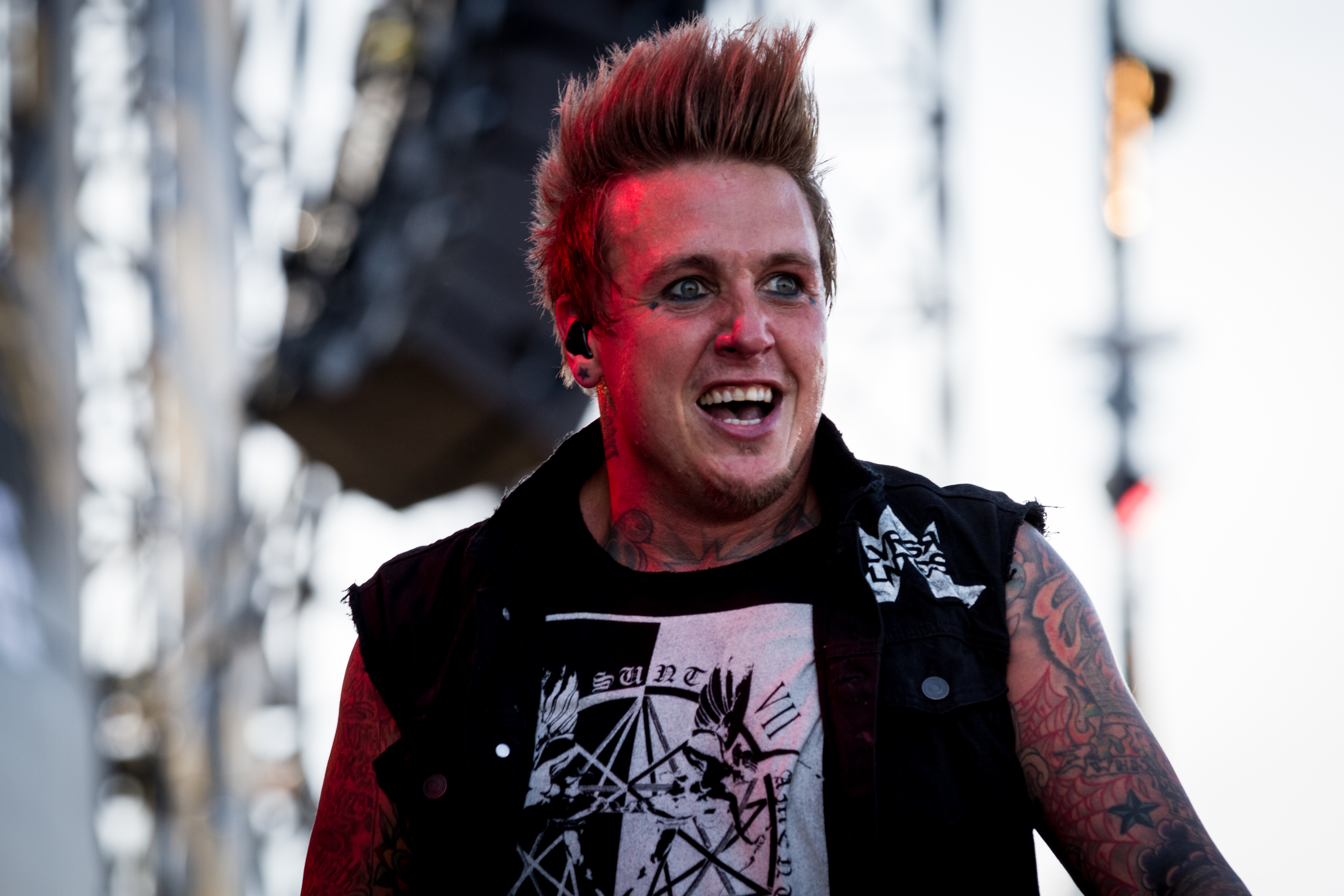 Papa Roach - Rock am Ring 2015